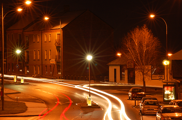 During the night, quite a busy little village